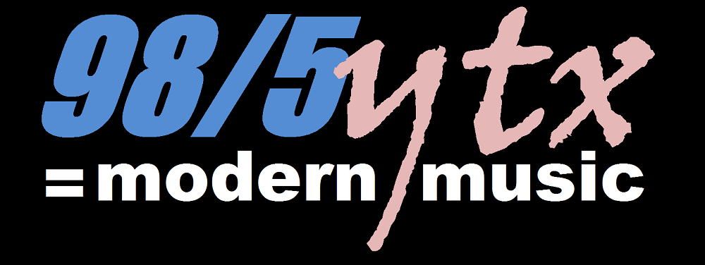 YTX Logo 1000 mod